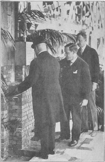 Laying the foundation stone of the Amsterdam Olympic Stadium by HRH Prince Hendrik.